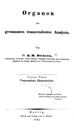 Fron page of Organonder gesammten transcendenten Analysis (1845) by Enno Heeren Dirksen (1788-1850)